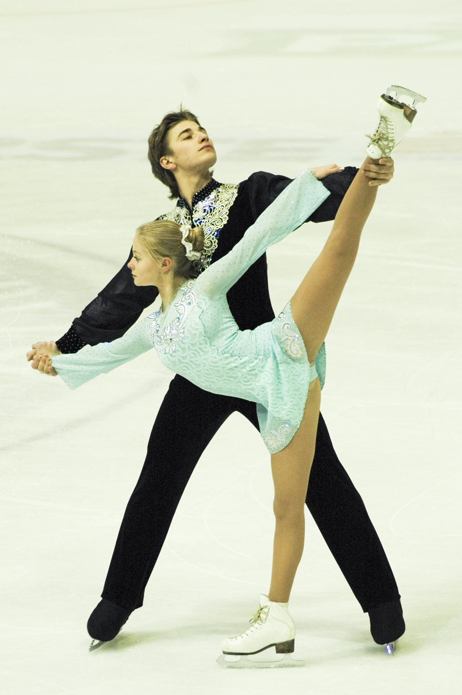 Anastasia Martiusheva and Alexei Rogonov, performing Free Skating, winners of first place on 43. Golden Spin of Zagreb